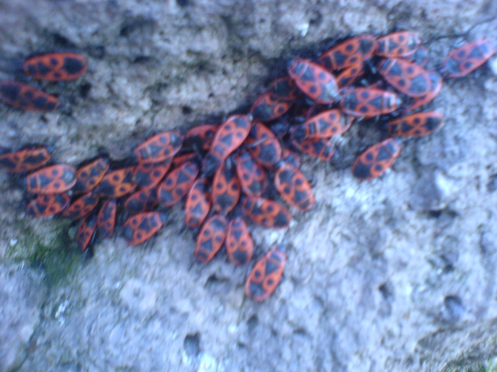 Firebugs (Pyrrhocoris apterus) in March near Deva, Hunyad county, Transylvania.